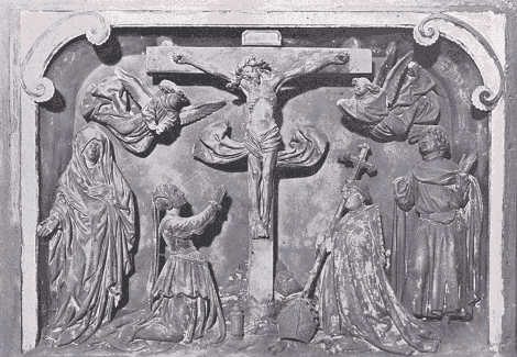 Christ on the Cross, Chapel of Our Lady of the Blind; Sculpture: anonymous (?; Original polychromy (which seems to be lost) ascribed to Jan van den Dale